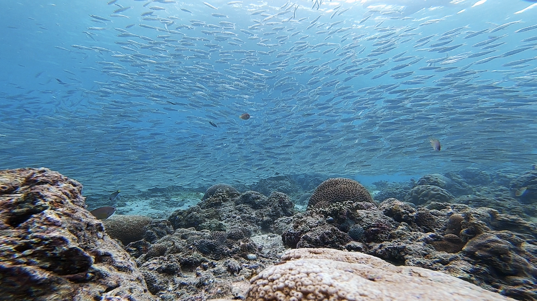 Sardine Storm snorkeling